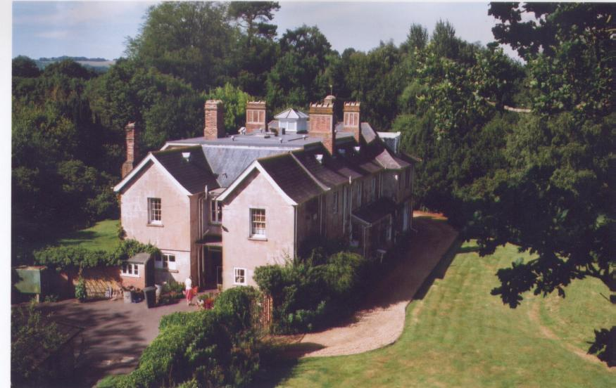 Aerial view of Bourne House, East Woodhay